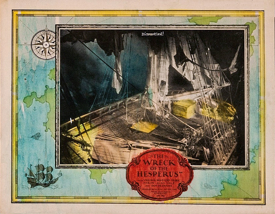 Lobby card for the 1927 film The Wreck of the Hesperus. The card was hand-colored and some colors have run.